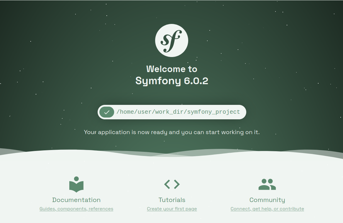 The default Symfony Welcome page displayed after creating a new Symfony project.